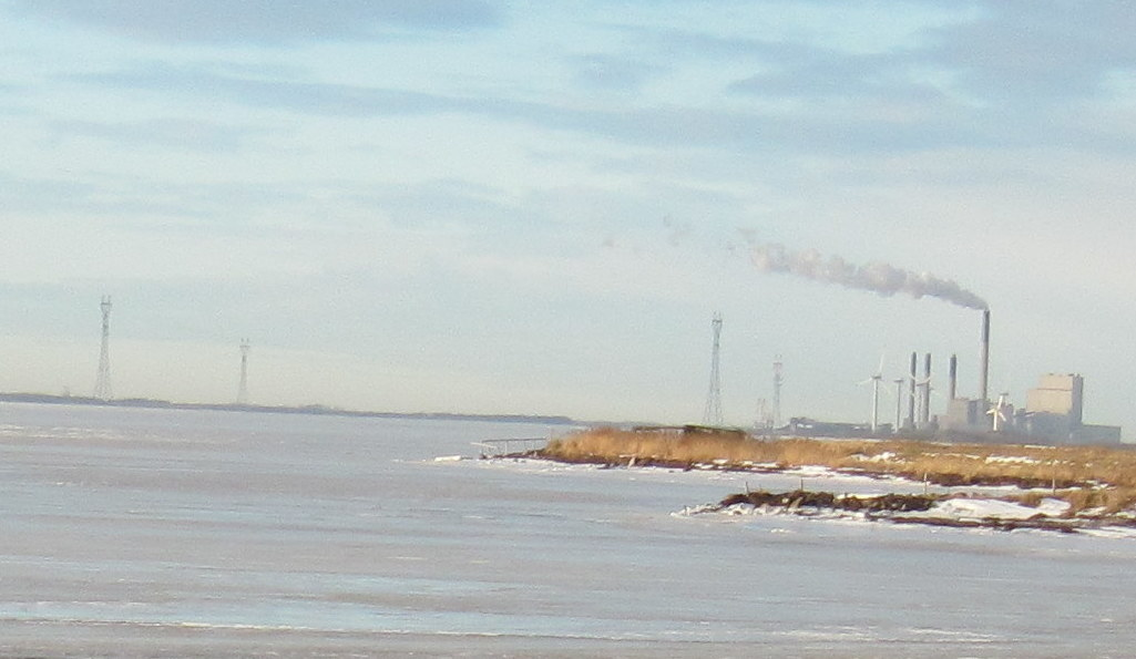 Nordjyllandsværket (right) and Limfjord overhead power line crossings; Denmark